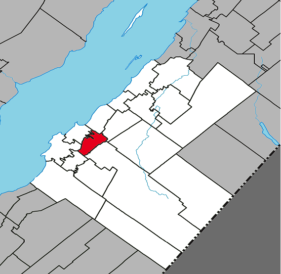 Location of Saint-Philippe-de-Néri, Quebec within Kamouraska Regional County Municipality.